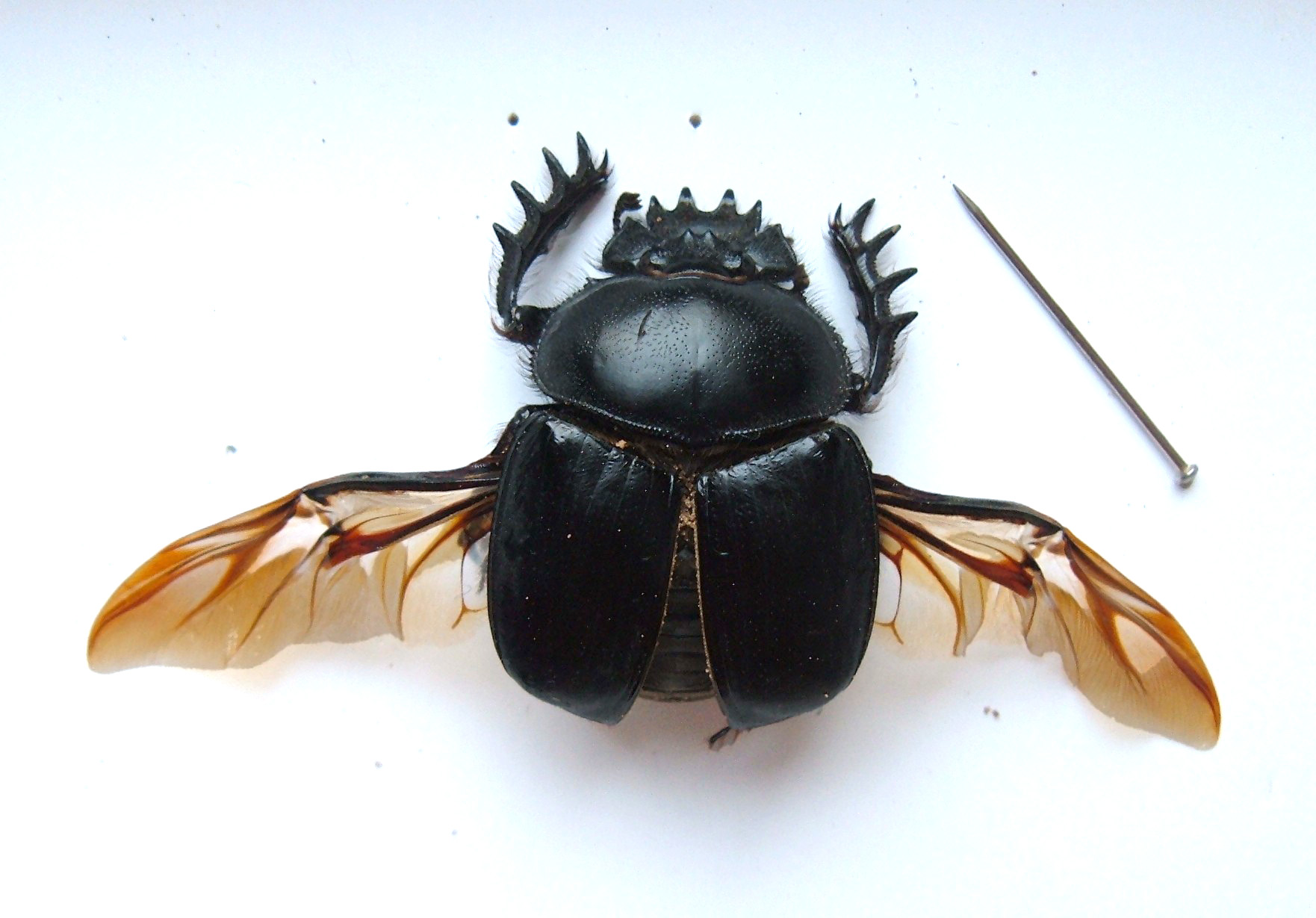 Dead scarab (Scarabaeus sacer - Egyptian dungbeetle) found in the dunes of the western Negev, Israel.